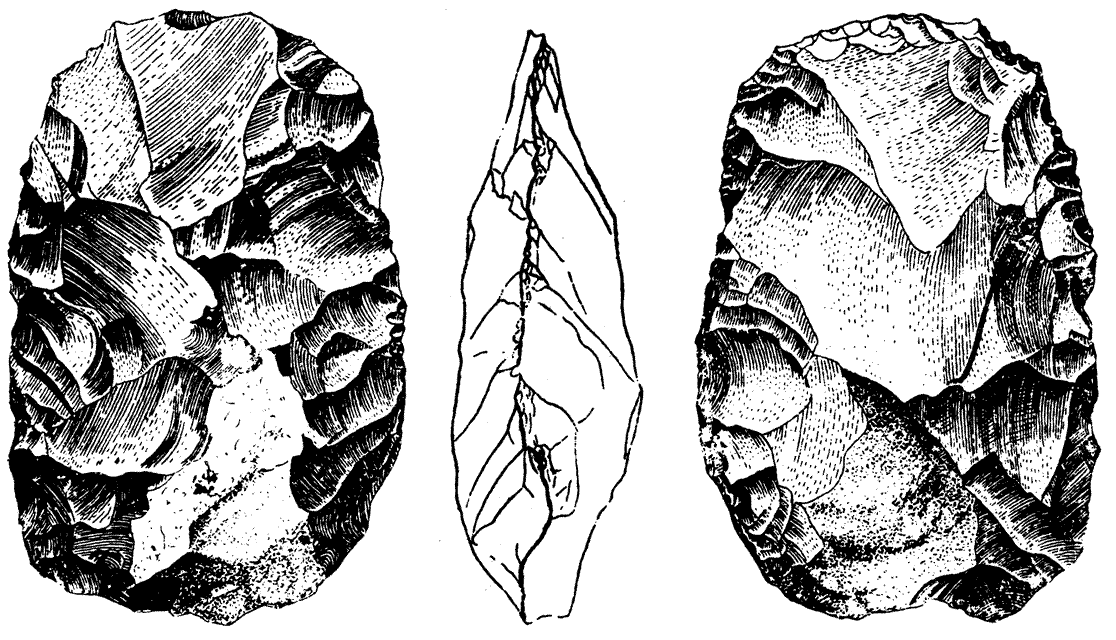 Cleaver hand axe from the acheulean site of Torralba, Soria, Spain (collection Marquis of Cerralbo)